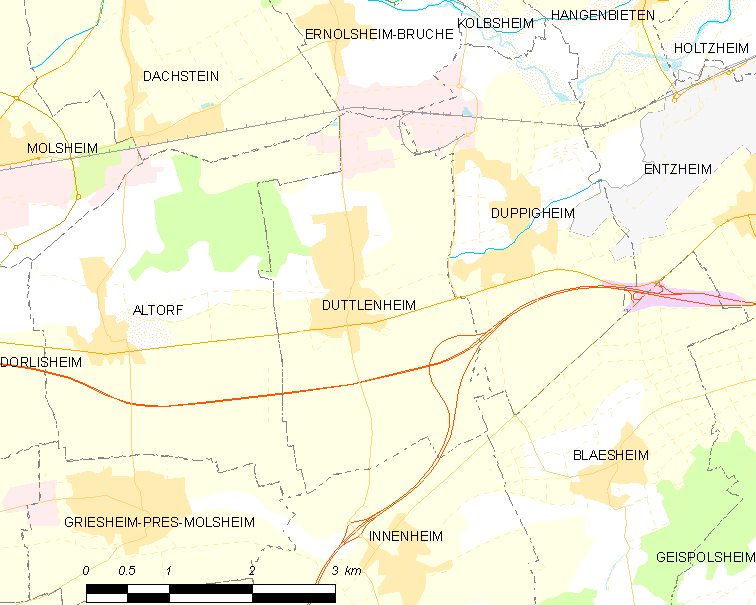 Map of French municipality